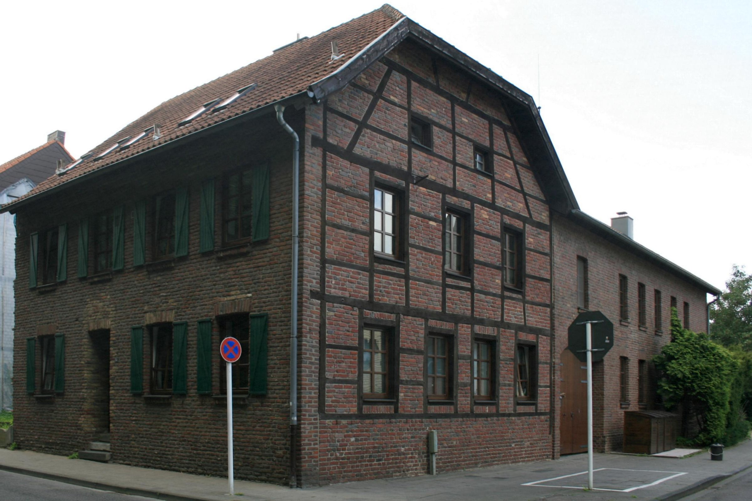 Cultural heritage monument No. H 007 in Mönchengladbach